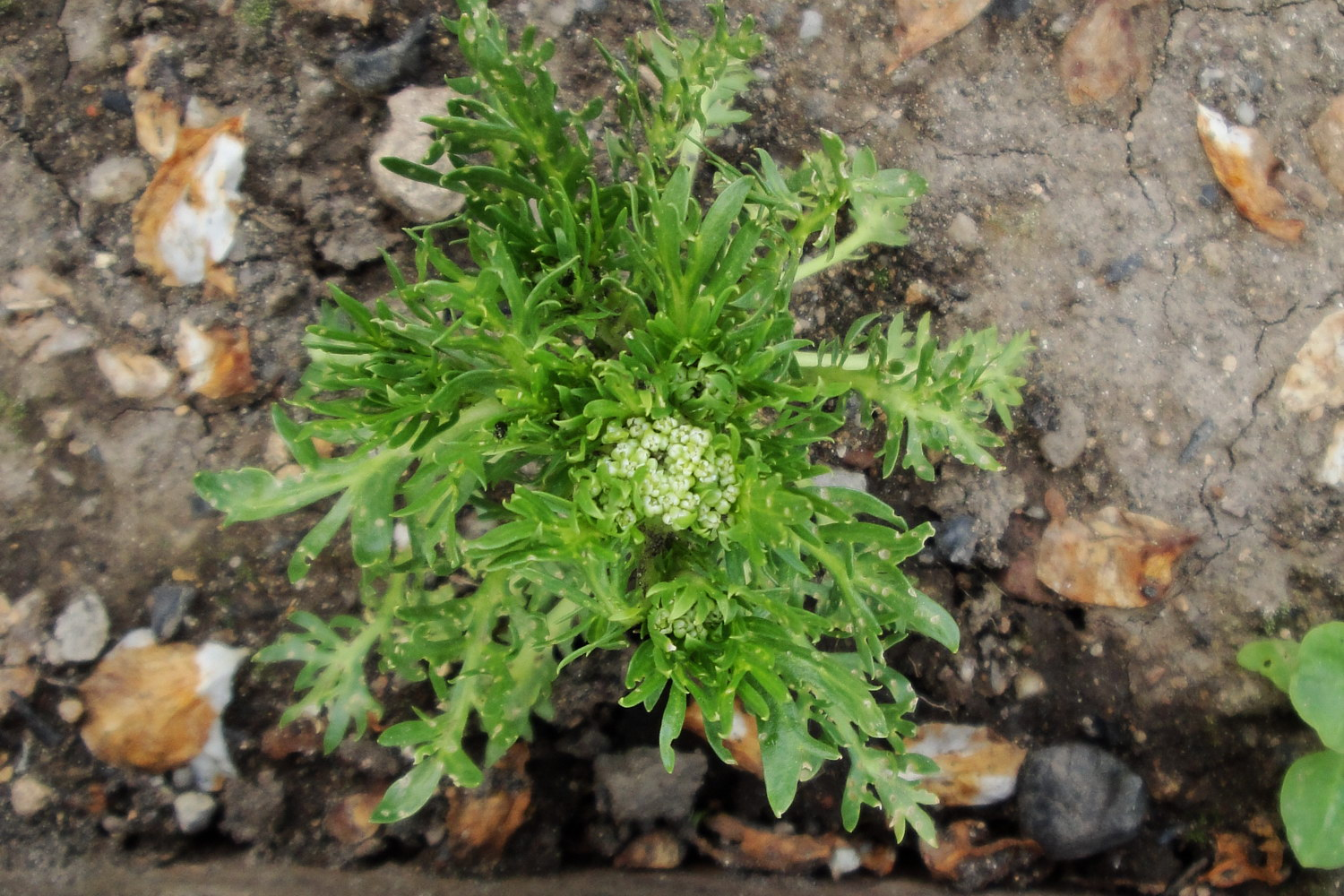 Lepidium meyenii, Tsaghkadzor, in culture, 2011.06.09 (01)